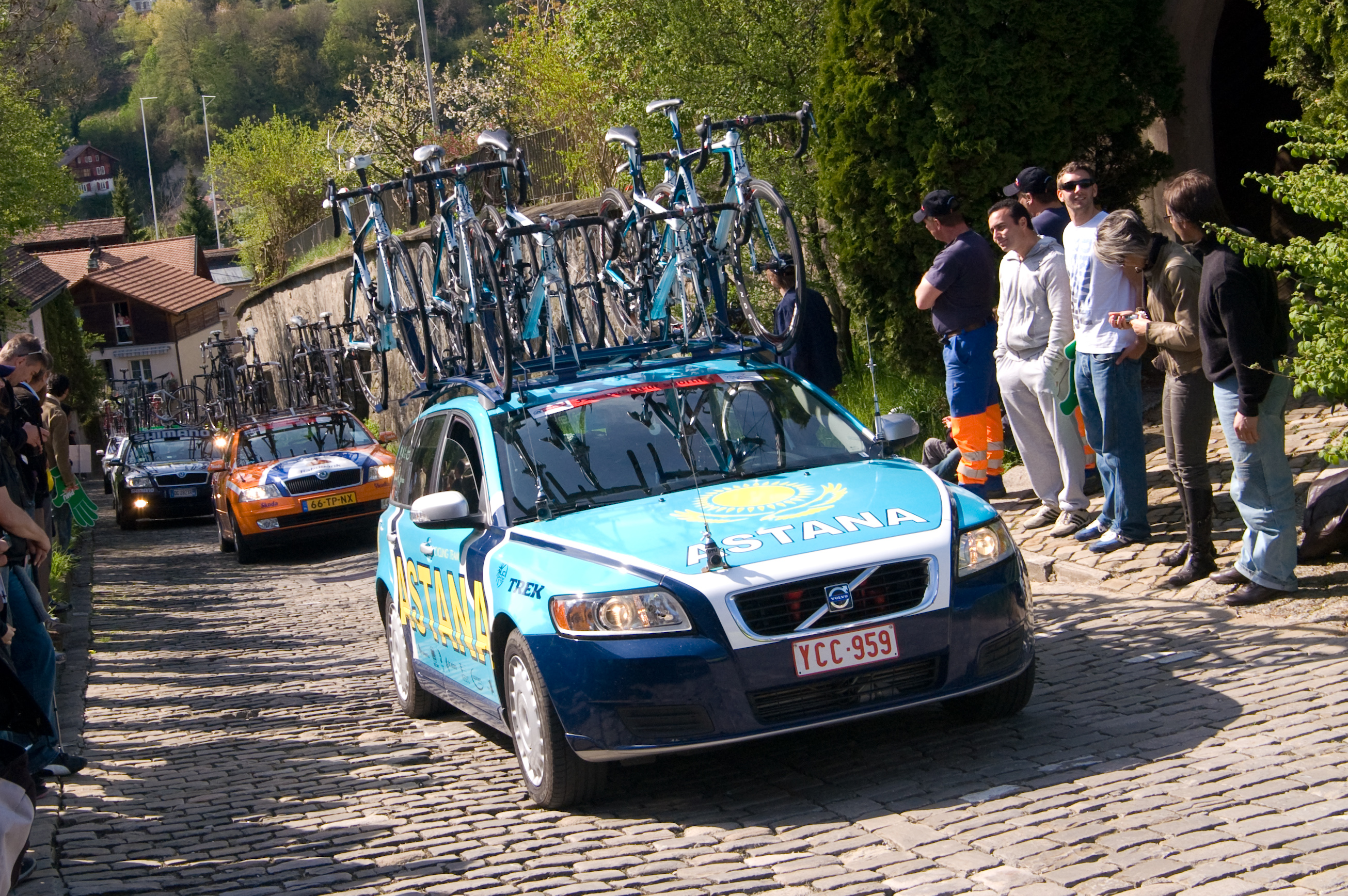 2nd stage of the Tour de Romandie 2008. Astana and Rabobank team cars.